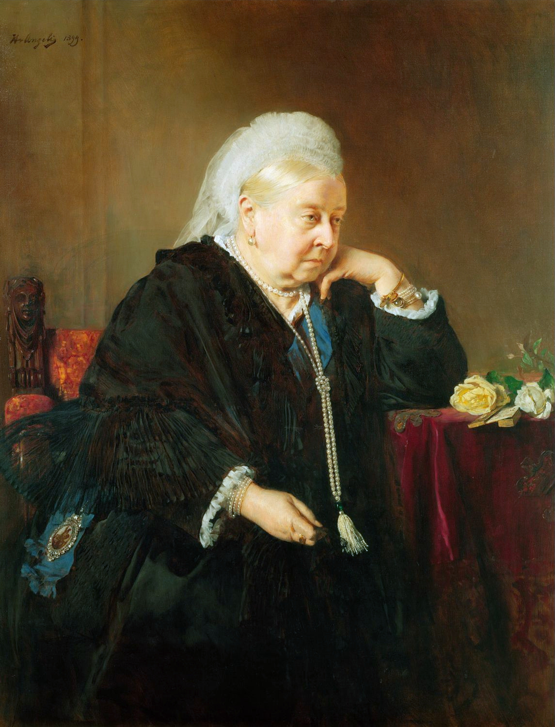 Portrait of Queen Victoria as widow